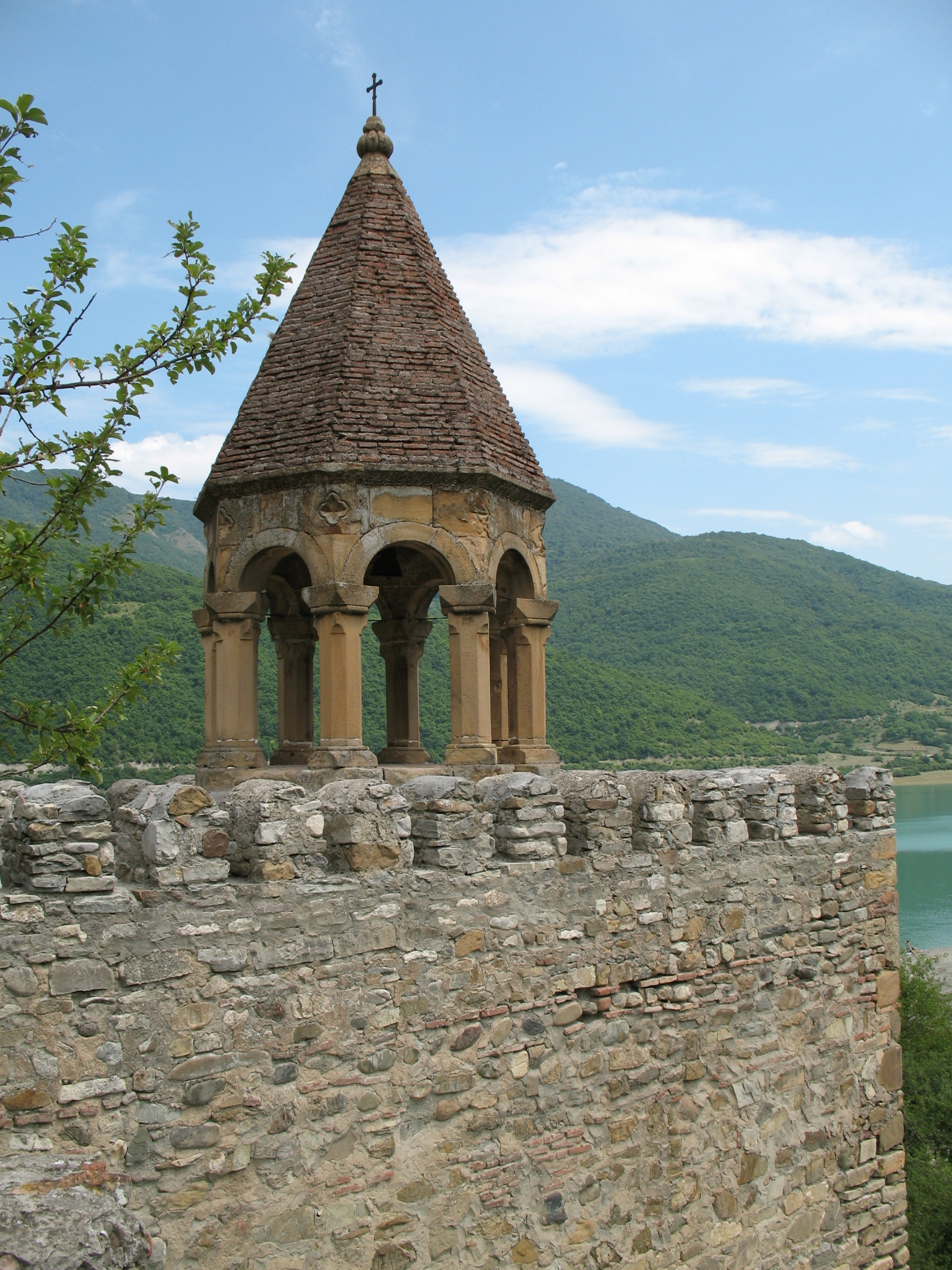 Ananuri castle in Georgia